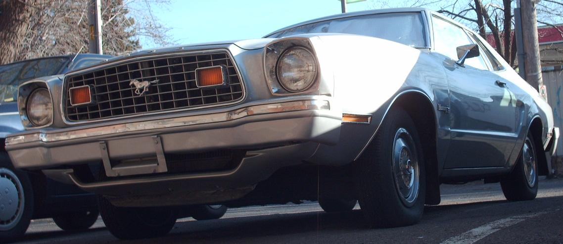 1974-1978 Ford Mustang photographed in Montreal, Quebec, Canada.